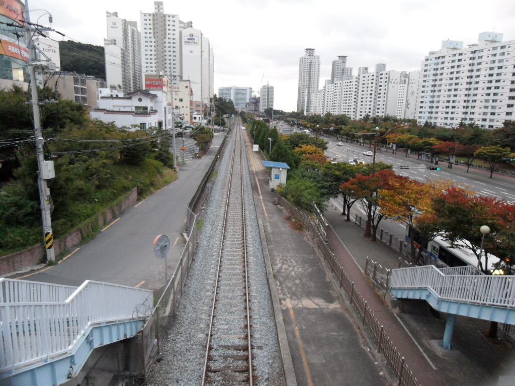 Korail Uil Station